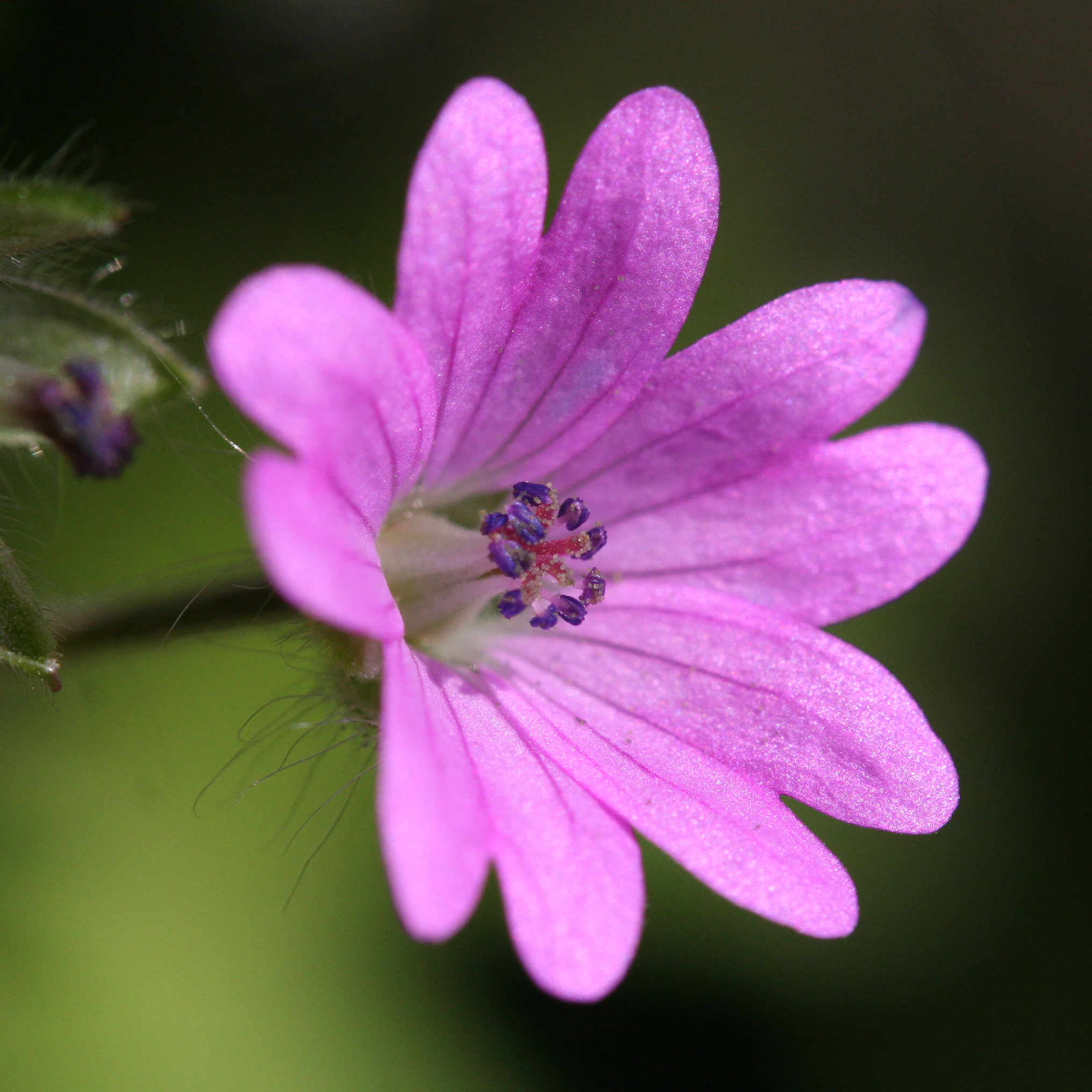 Geranium molle, zoom on the flower; France - Lozère - Pied-de-Borne